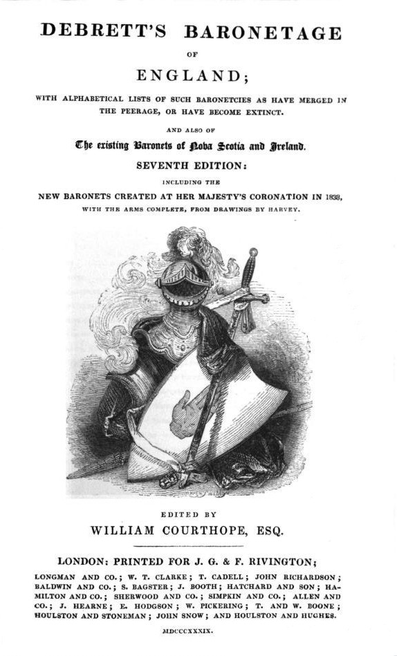 Front cover of Debrett's Baronetage (1839)